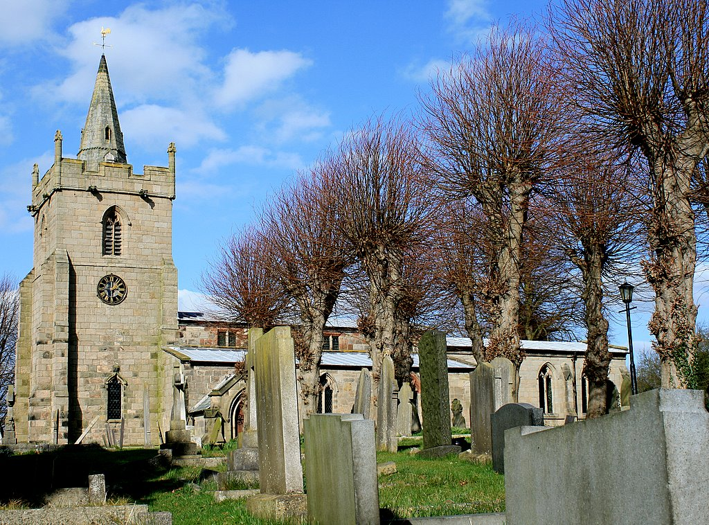 This handsome church has some wonderful internal carvings on top of the first pair of pillars (just inside the south entrance).